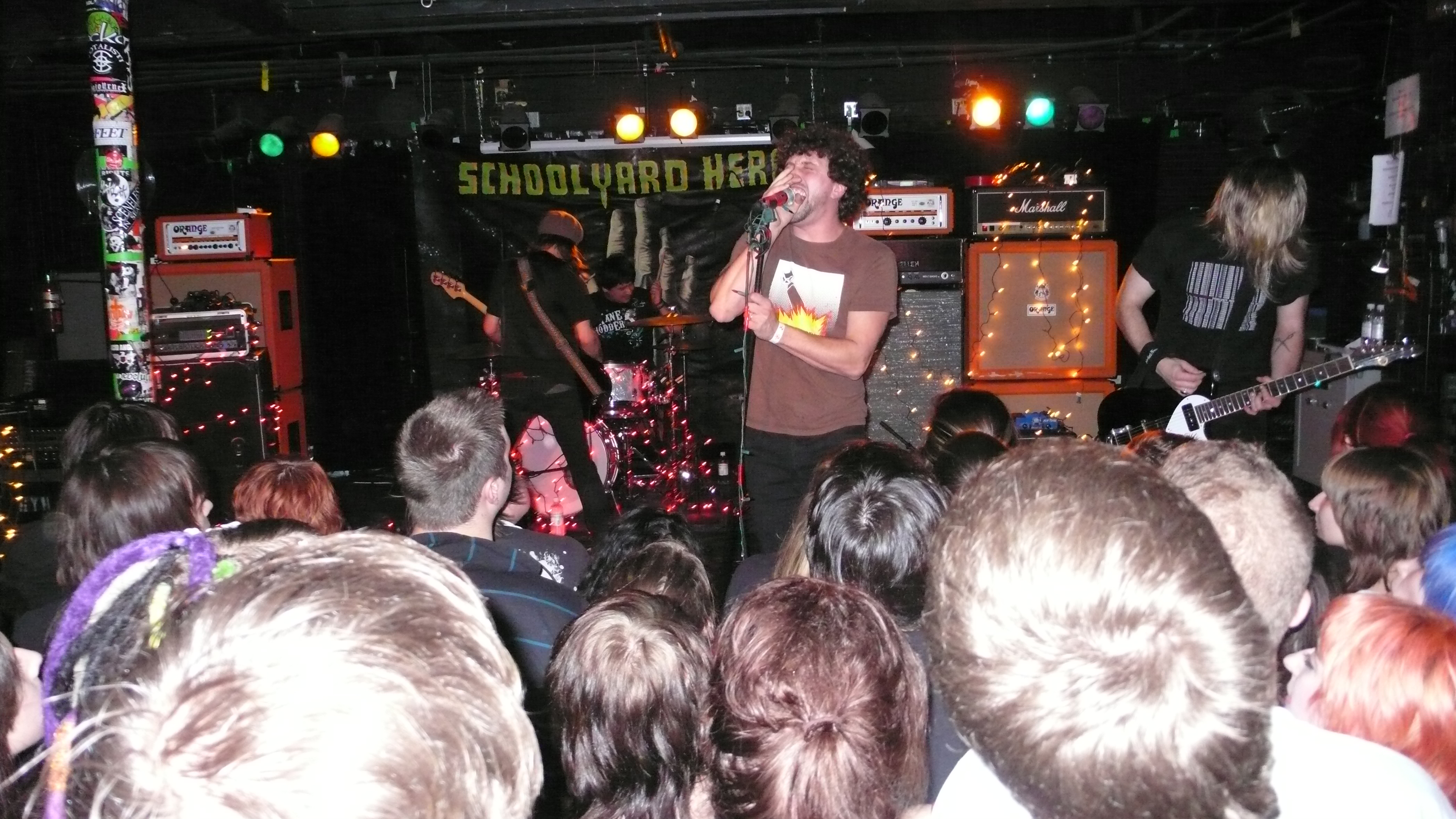 Sirens Sister performing at Home for the Horrordays in 2009